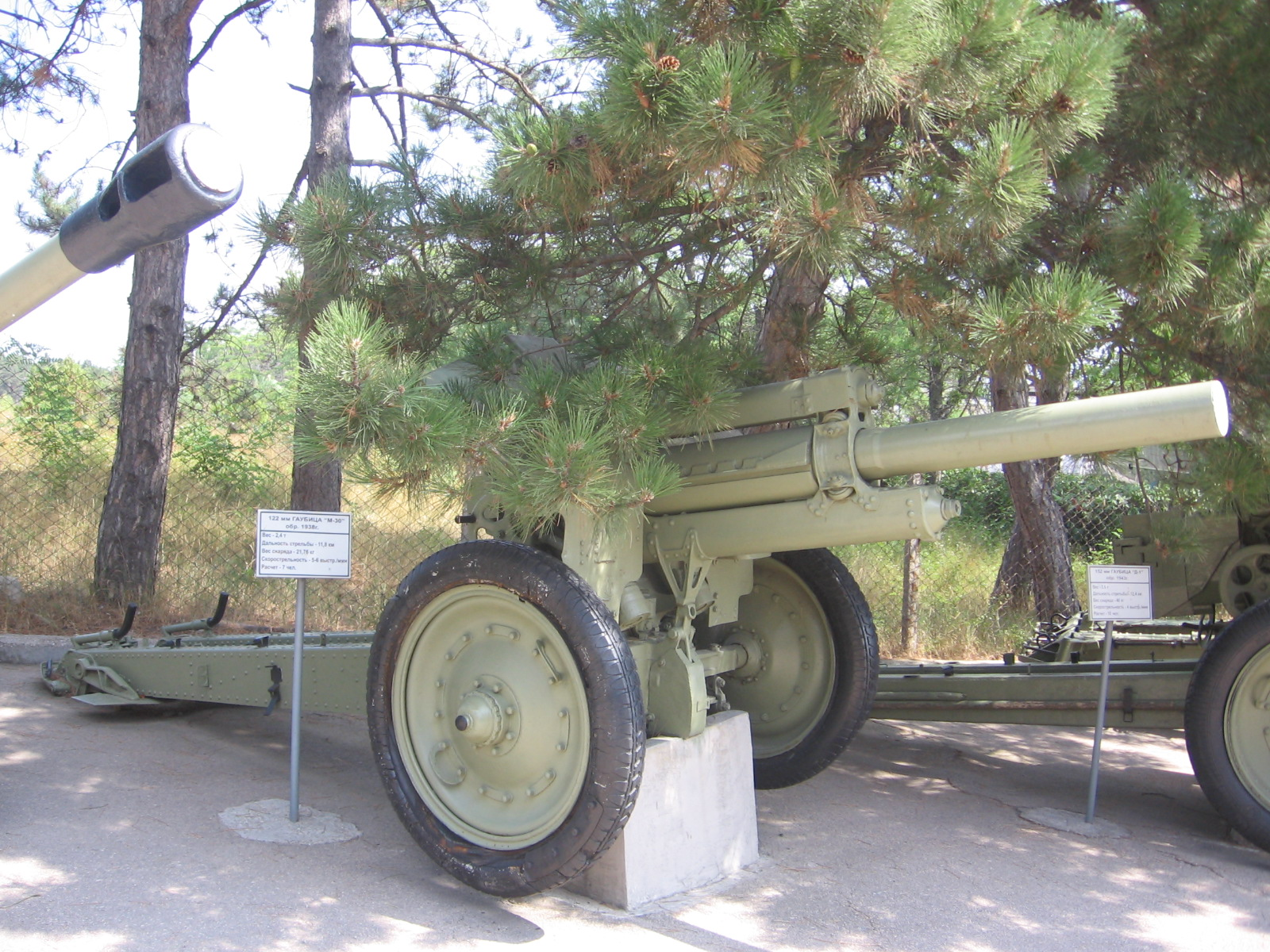 Soviet 122 mm howitzer M1938 (M-30), manufactured in 1942, is displayed at the Museum of Heroic Defense and Liberation of Sevastopol on Sapun Mountain in Sevastopol.